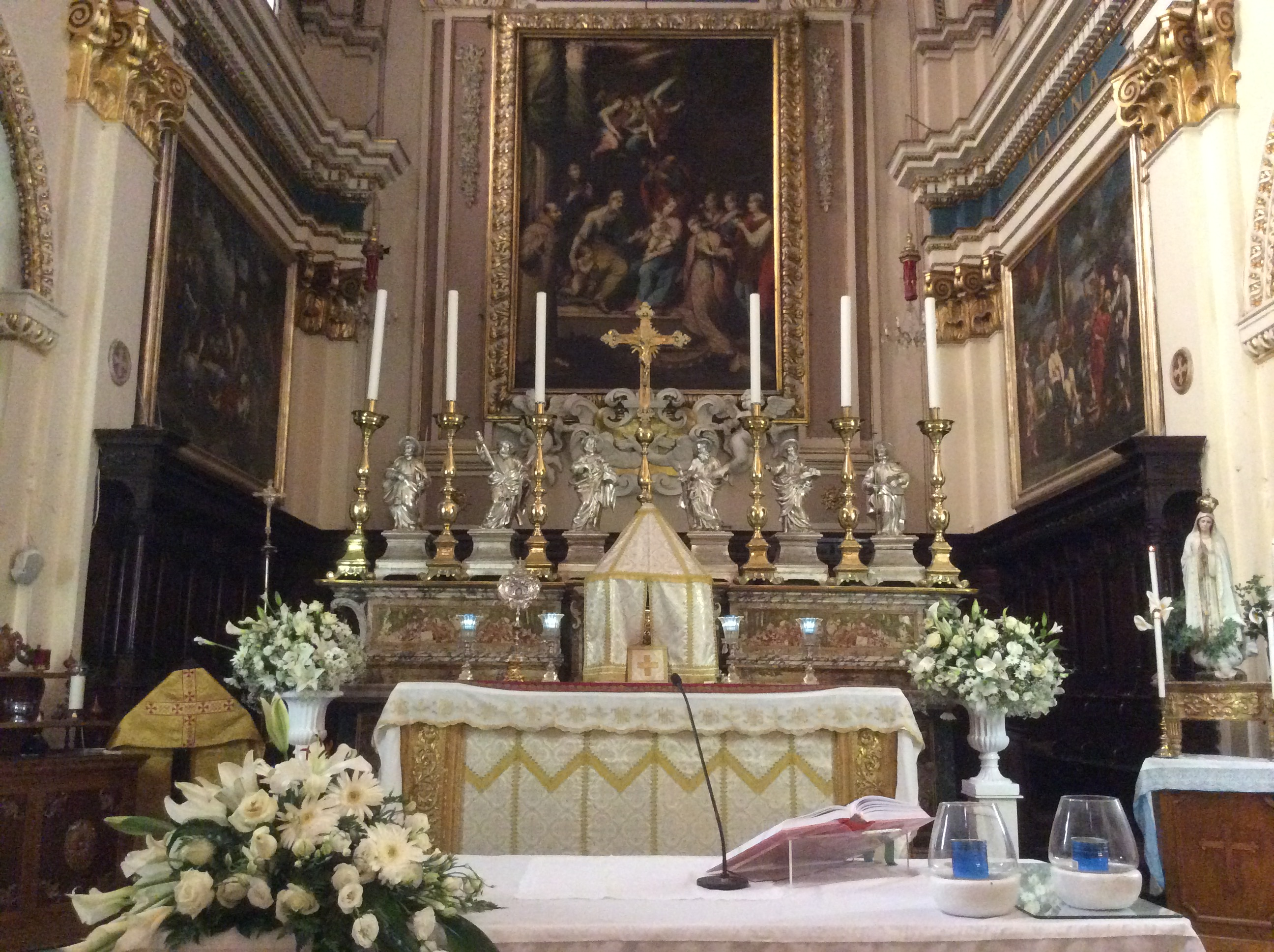 Ta Giezu Church